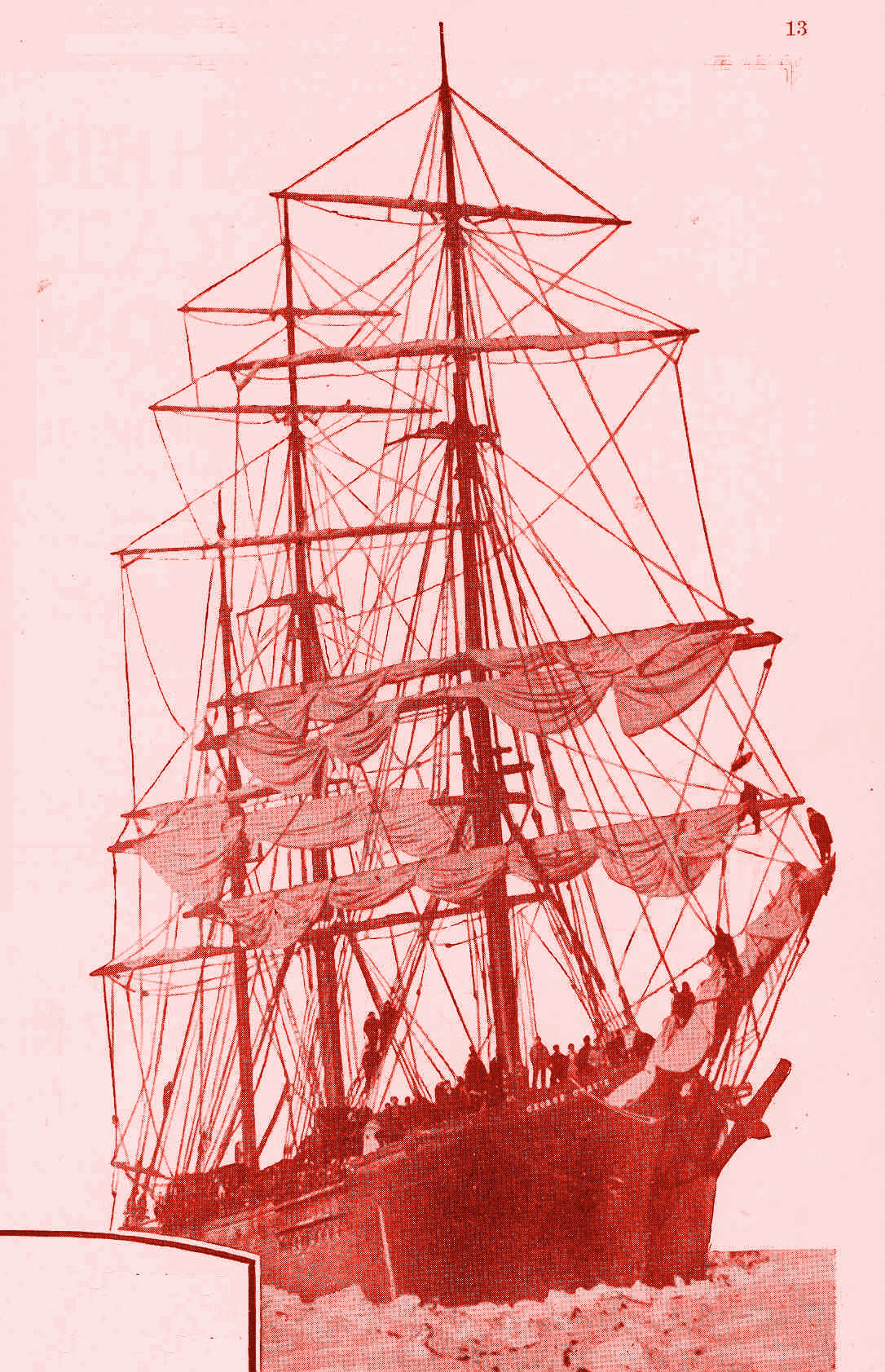 Photograph of the sailing ship 'Geo. Curtis' was taken the last of may, 1918. She had left Seattle the middle of April on her usual voyage to Bristol Bay, Alaska. On board were 350 of [employees of Libby, McNeill & Libby, Chicago,] on their way to man the Libby Kitchen that in the next three months would pack the salmon brought in from the waters of Bristol Bay . But in Bristol Bay the vessel was trapped in a big ice floe which was about 100 miles across. The was held there for over two weeks, until the weather changed, the ice broke up, and she was able to limp through the remaining ice to [the] cannery mooring in Bristol Bay . Another vessel--the sailing ship 'Tacoma--was crushed and sunk. All her passengers got to shore safely, after a very severe trip across the ice . Subject: Sailing ships, Geo. Curtis (Ship) Tag: Vessels